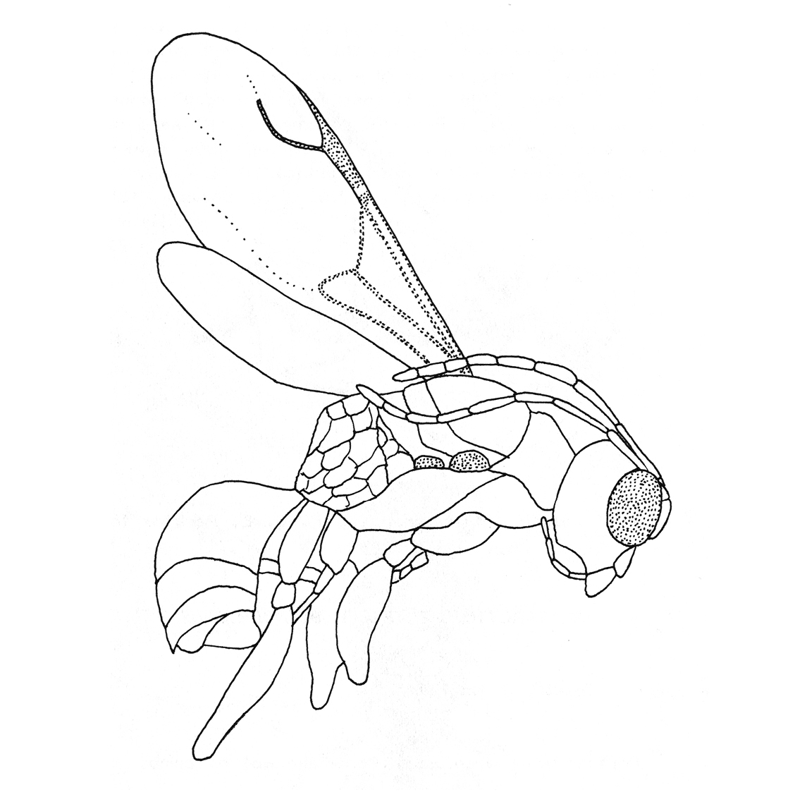 Deinodryinus areolatus. Female holotype (from Olmi 1984). Length 4.5 mm.